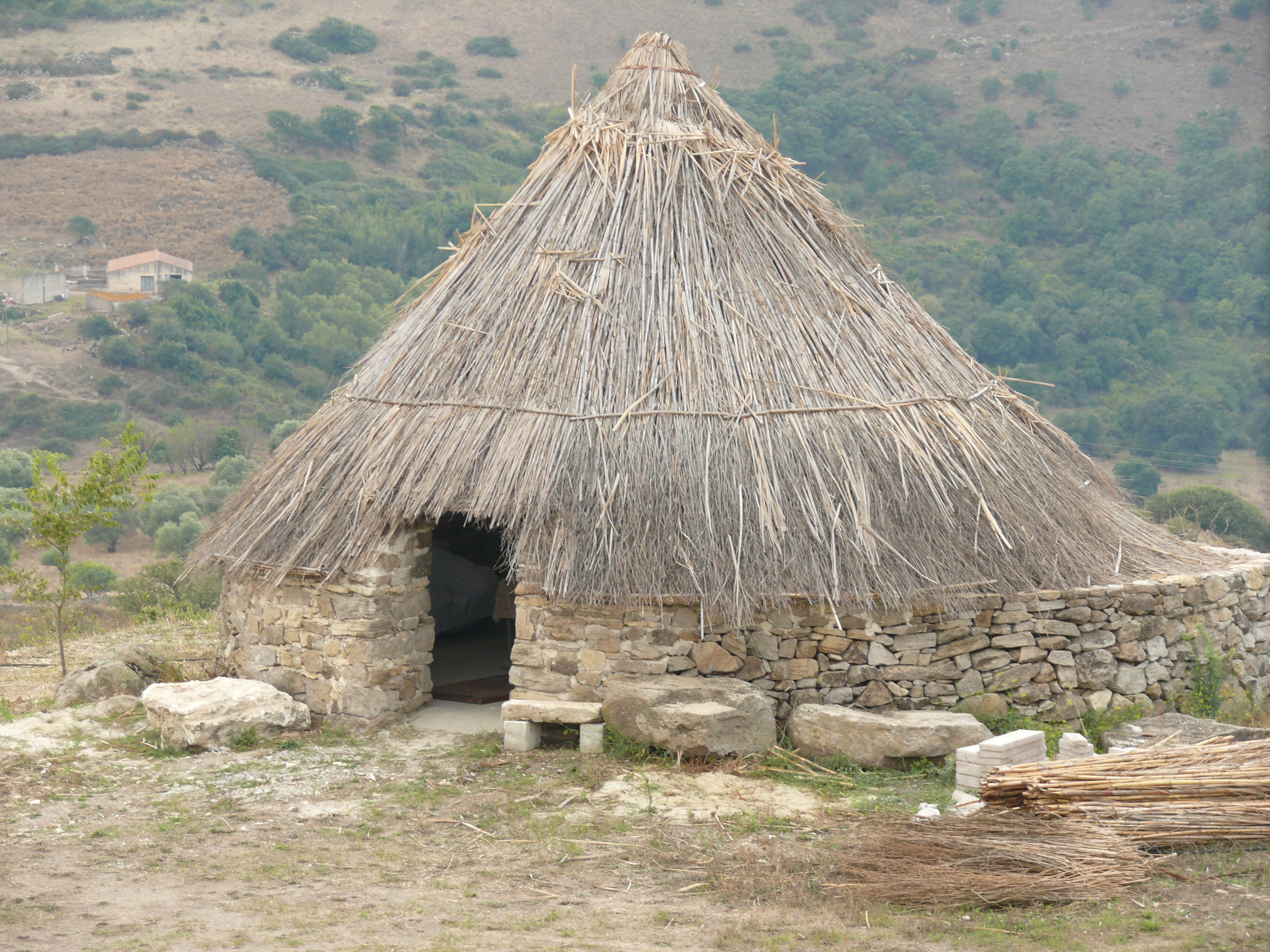 Ancient shepherd's hut in Mejlogu region LOCATION: Mara - Province of Sassari - Sardinia Island 40º 26' 47.39" N 8º 38' 38.80" E